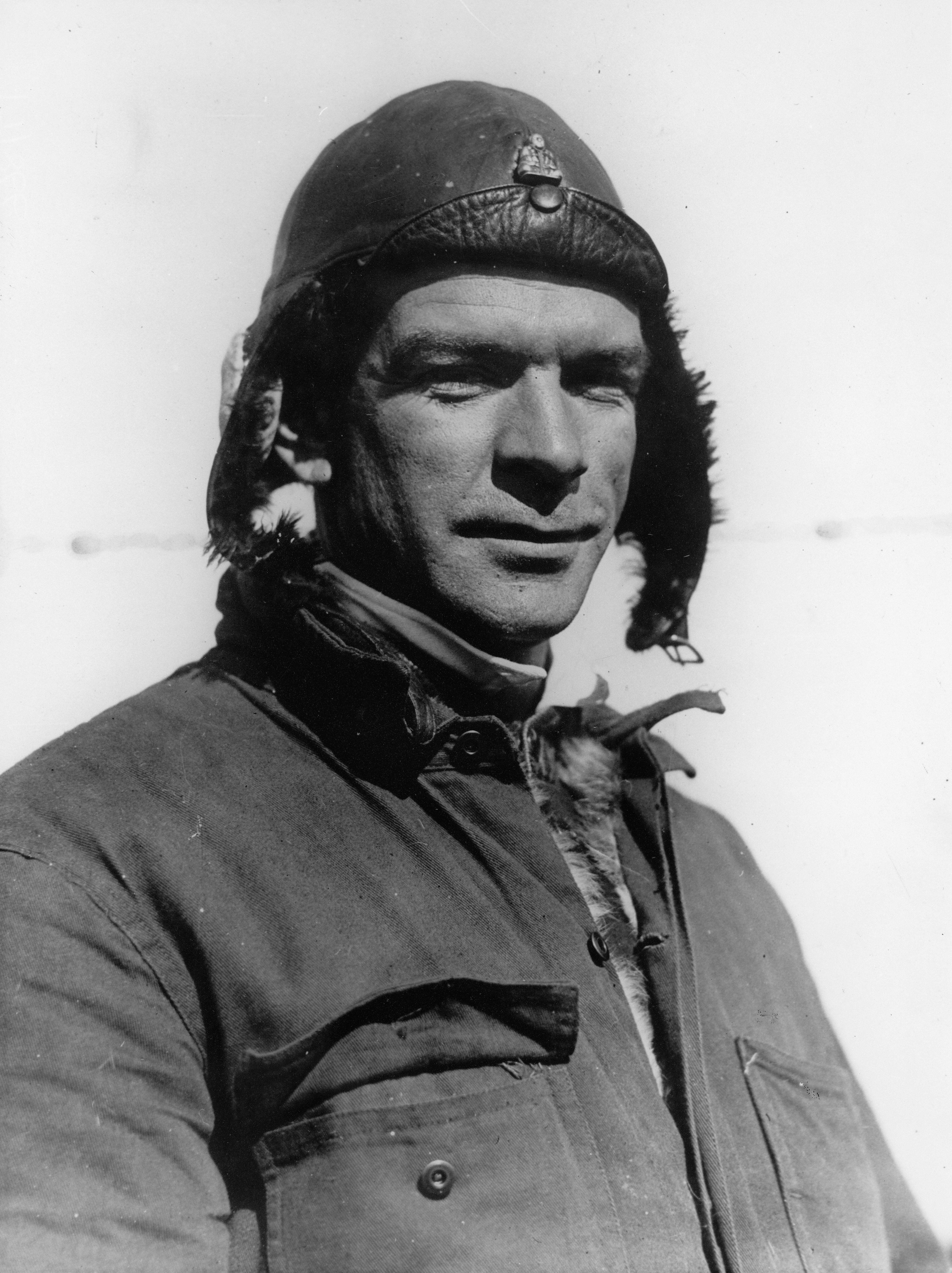 Aviator Charles Ulm at the end of a flight, 1928 Charles T. P. Ulm was a co-pilot for Charles Kingsford-Smith when they crossed the Pacific Ocean in the Fokker F.VII 3m aeroplane, Southern Cross. They flew from Oakland in California, stopping at Honolulu and Suva, landing in Brisbane at Eagle Farm on 10 June 1928.